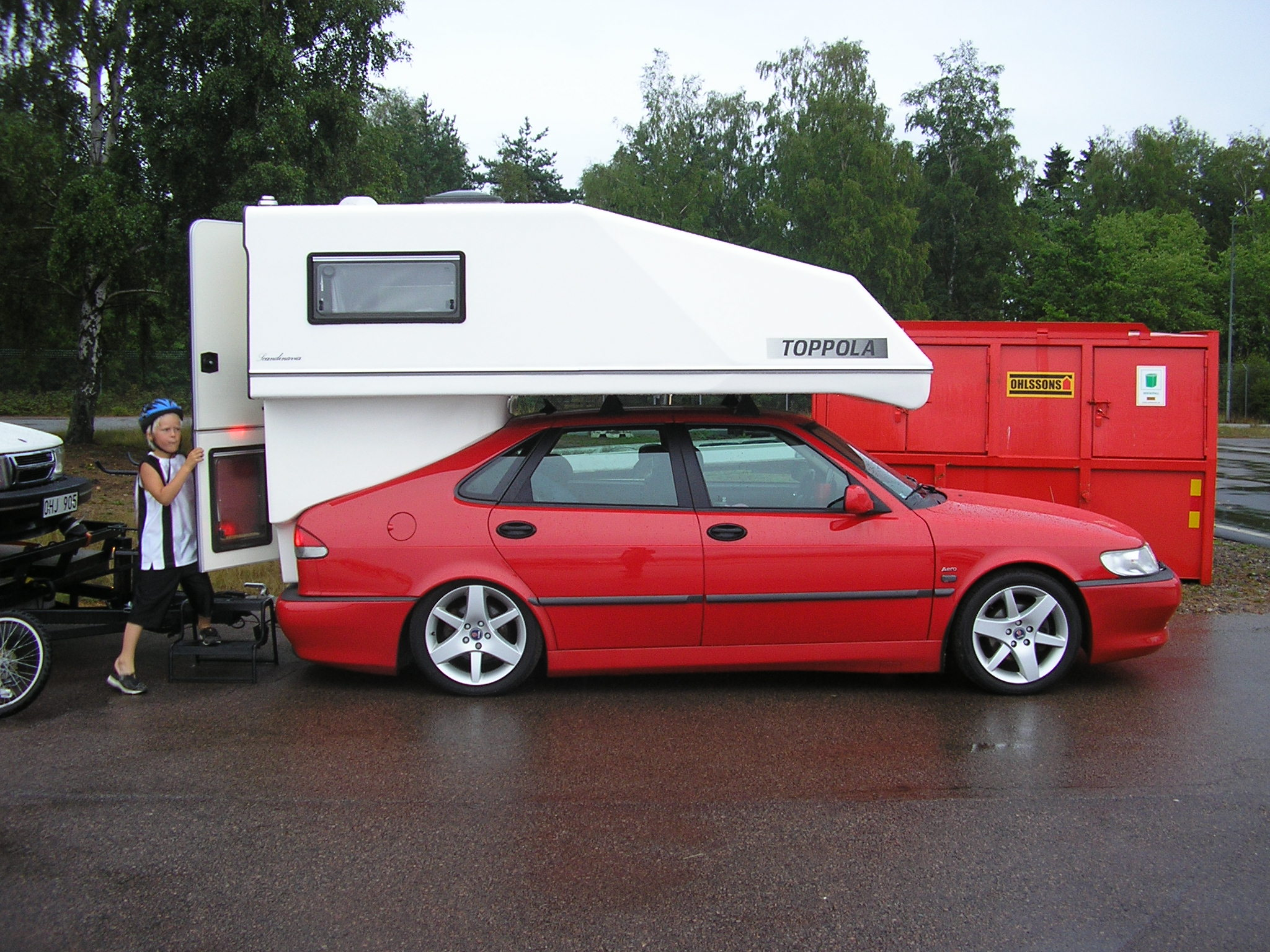 A SAAB 9-3 Aero with the last ever made Toppola. The reason it rides so low is not mainly the weight of the Toppola (it only adds about 100 kg), but that he use lower (and stiffer) racing spings. Photographed at the International SAAB Club Meeting 2006.